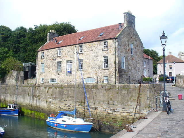 Harbourmaster's House, Dysart Historic building, now holding a cafe and museum. The tide is obviously low.